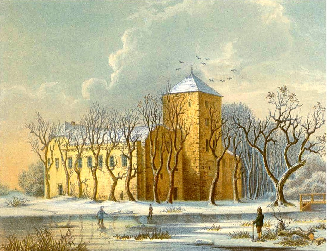 Original 19th-century artist illustration of Chudów (Chudow, also Chutow) Castle in Chudów, near Gliwice (Gleiwitz), Upper Silesia: built 1532 by and former residence of the Roman-German Silesian nobility House of Saszowski (historically also spelled Saschowsky, Sassowski, Szaszowski, Schaschowsky and Schaszowsky) of Saszow, Geraltowitz and Palczowitz; including its branch/descendants alias Geraltowsky (Gierałtowski) and Palczowski (Palczewski). Members of the House were also for a long period of time Burgraves of Kraków (former capital of Poland), as well as progenitor of the Saszor / Orla (Eagle) clan arms of the Kingdom of Poland.